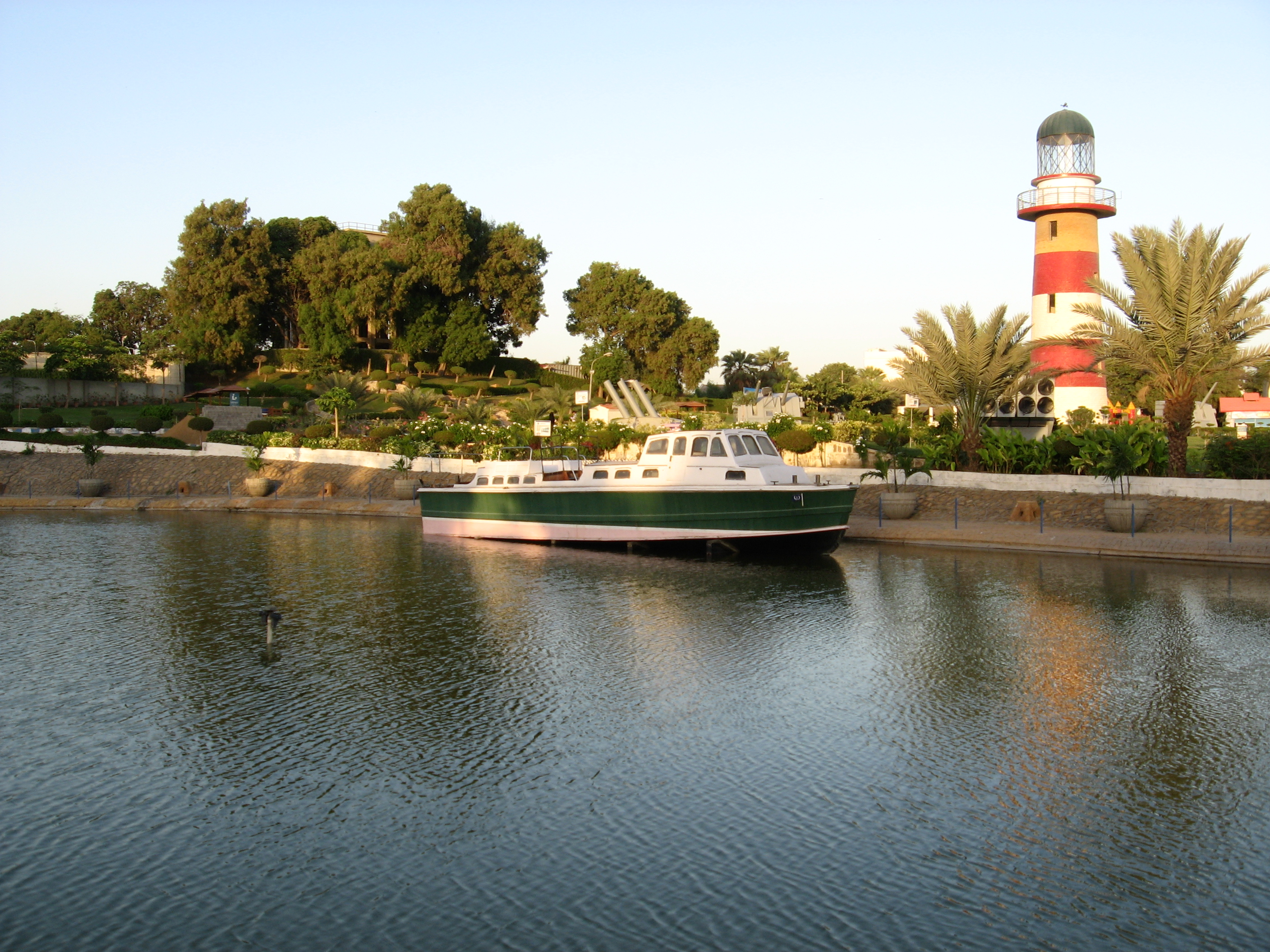 A view of Pakistan Maritime Museum, Karachi, Pakistan